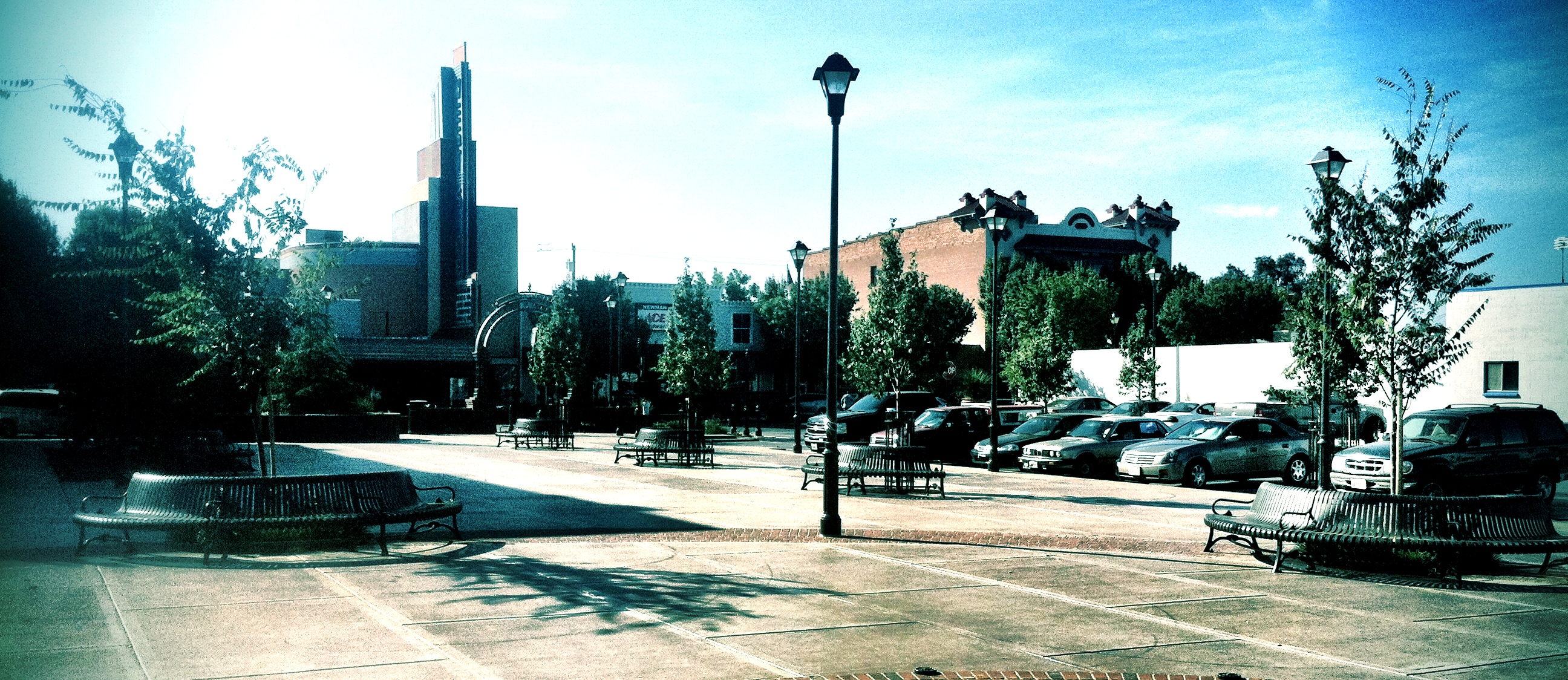 The Plaza of Newman, California.